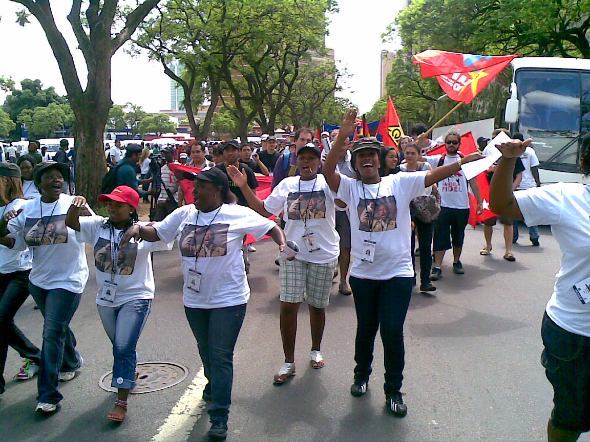 Julius Malema on t-shirts worn by girls at the ending of World Festival of Youth and Students in Johannesburg 2010.